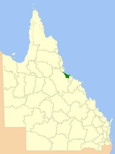 Location of the Local Government Area in Queensland